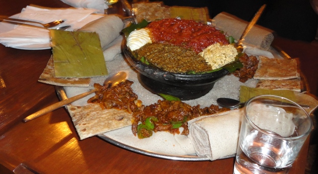 Kitfo consists of minced raw beef, marinated in mitmita (a chili powder based spice blend) and niter kibbeh (a clarified butter infused with herbs and spices). Kitfo is often served alongside—sometimes mixed with—a mild cheese called ayibe or cooked greens known as gomen. This is an image of food from Ethiopia